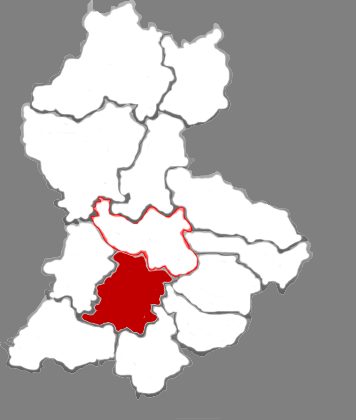 Location of Zhongyang county in Lüliang City, China